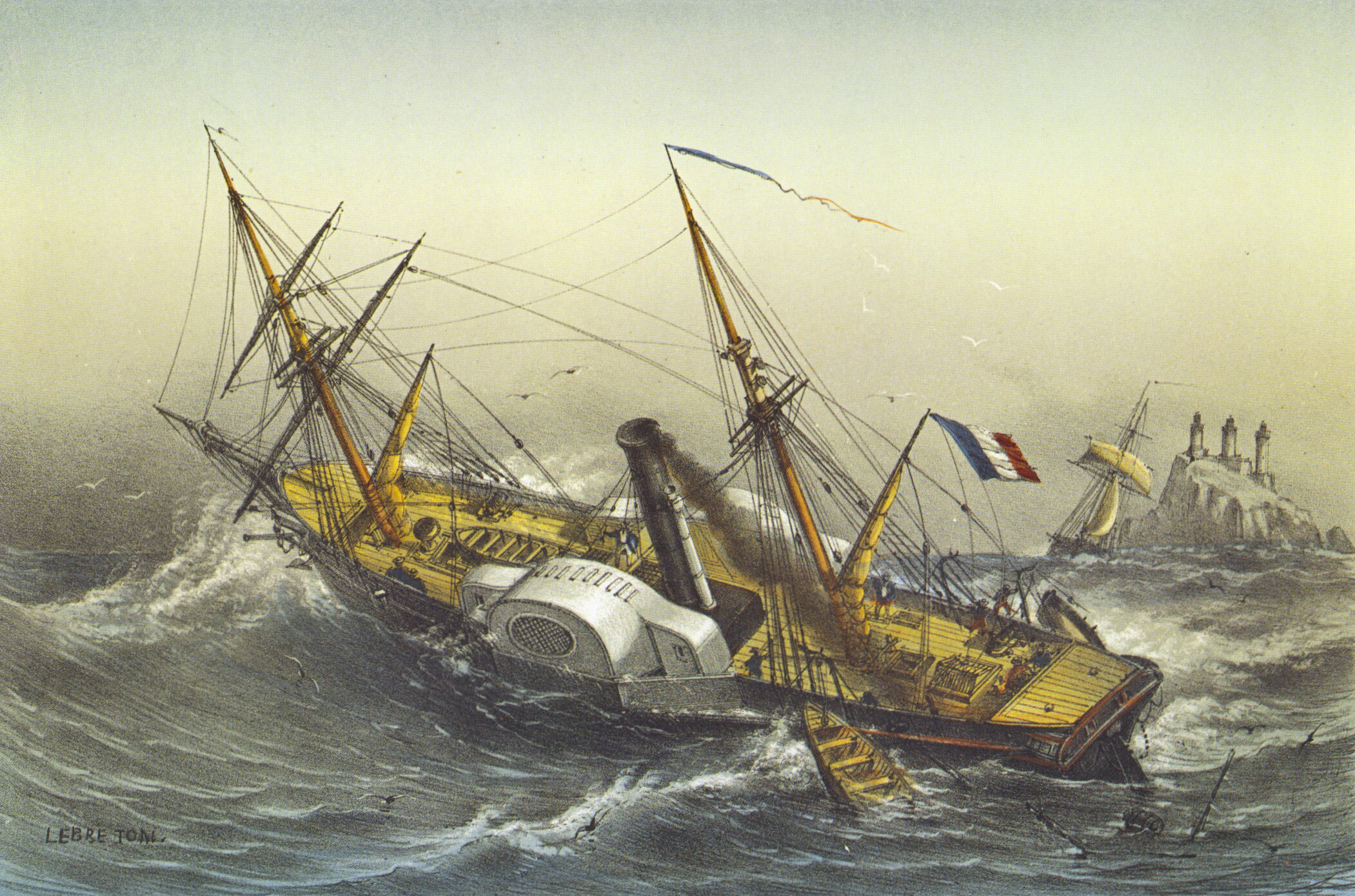 Steamer Fulton losing one of her boats in strong sea, off les Casquets.